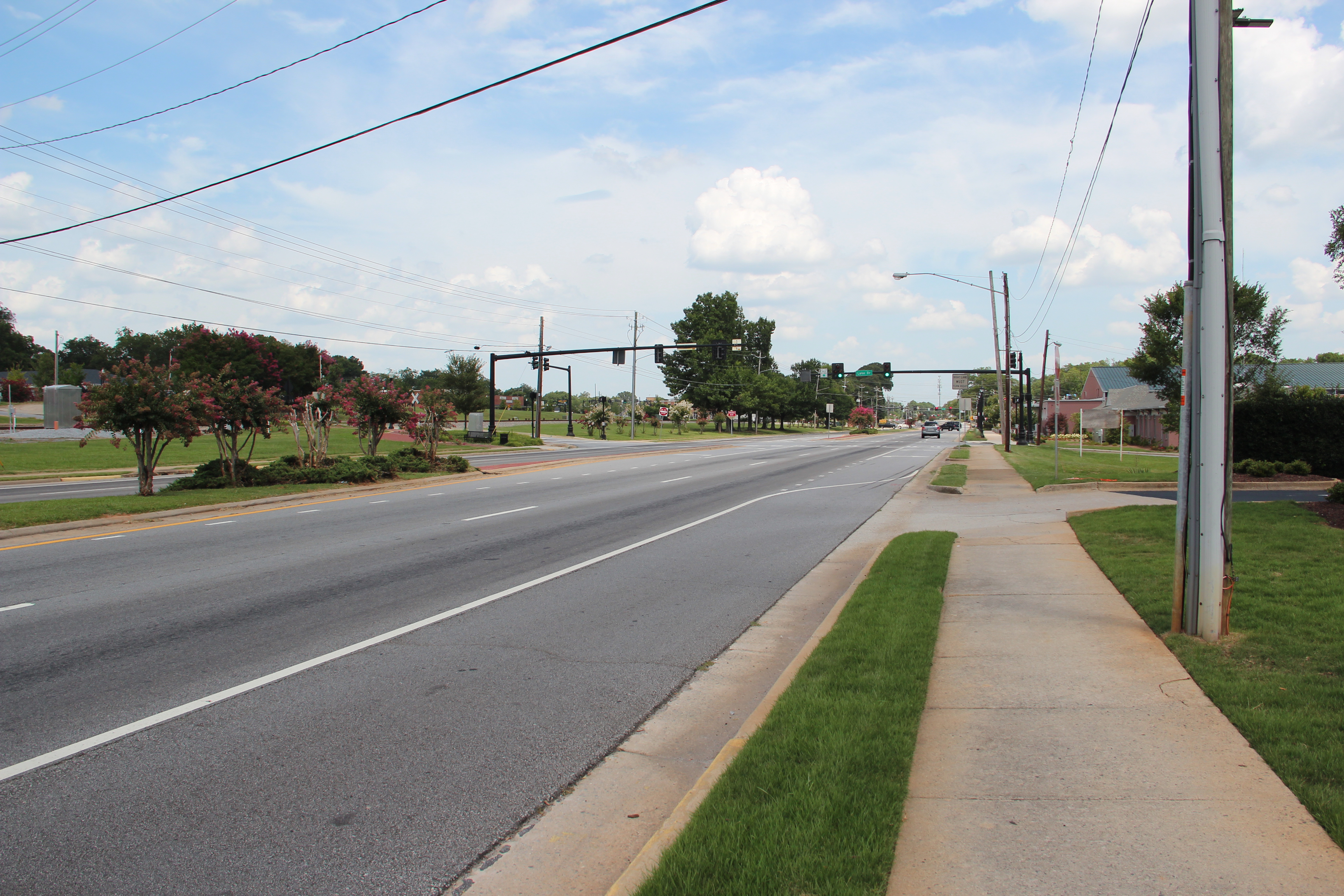 Georgia State Route 331 in Forest Park, Georgia